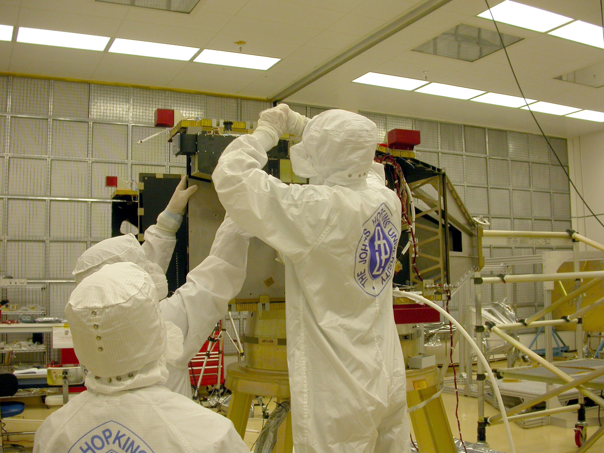 Technicians at the Johns Hopkins University Applied Physics Laboratory in Laurel, Maryland, install the Alice ultraviolet imaging spectrometer on NASA's New Horizons spacecraft. Alice is one of seven science instruments designed for the Pluto flyby mission, which is planned for launch in January 2006.